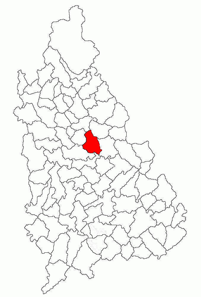 Locator map of Răzvad Commune in Dâmbovița County, Romania